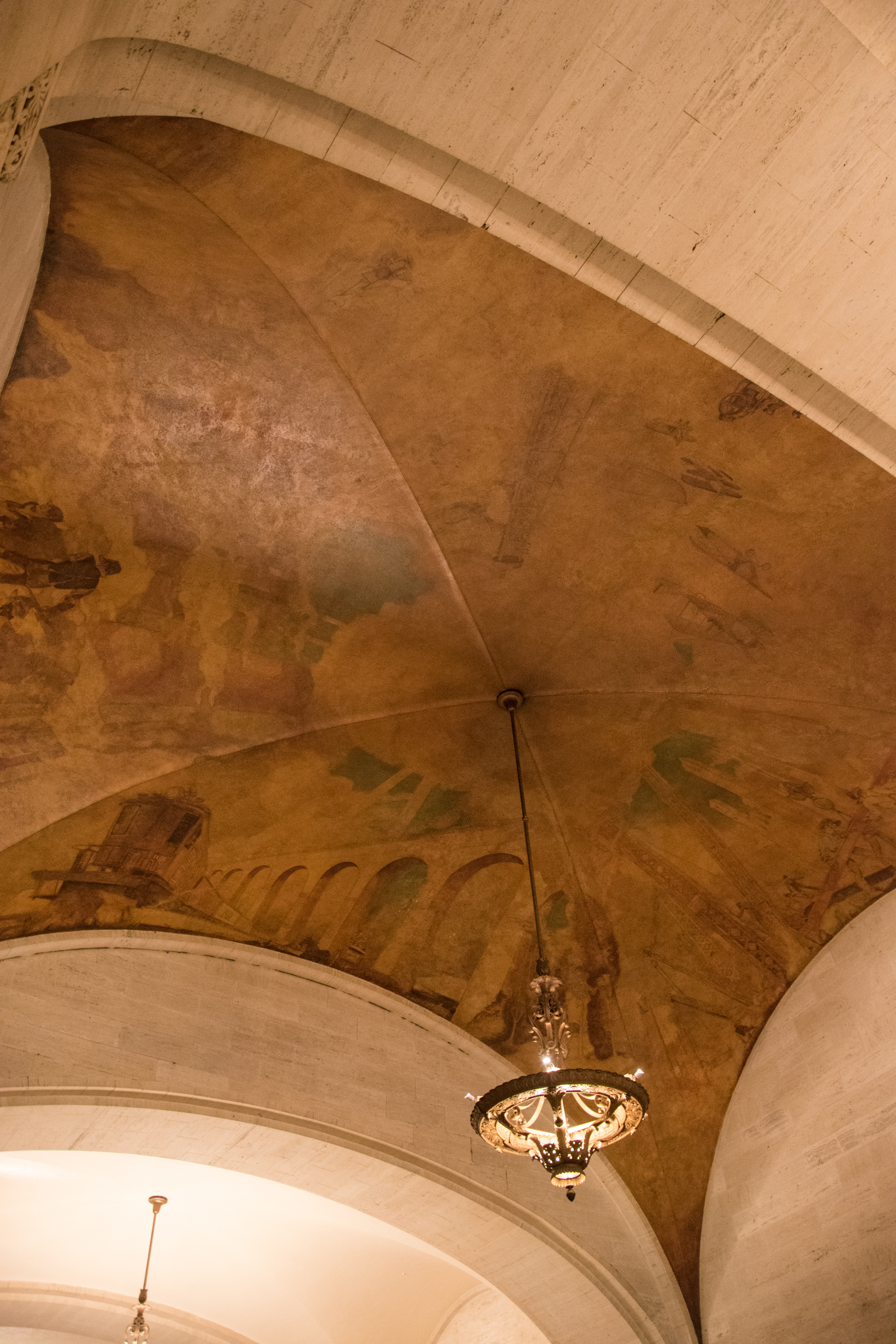 Graybar Passage mural in New York City's Grand Central Terminal in 2019. Taken as part of a scheduled photoshoot with three other Wikipedians on January 7, 2019.